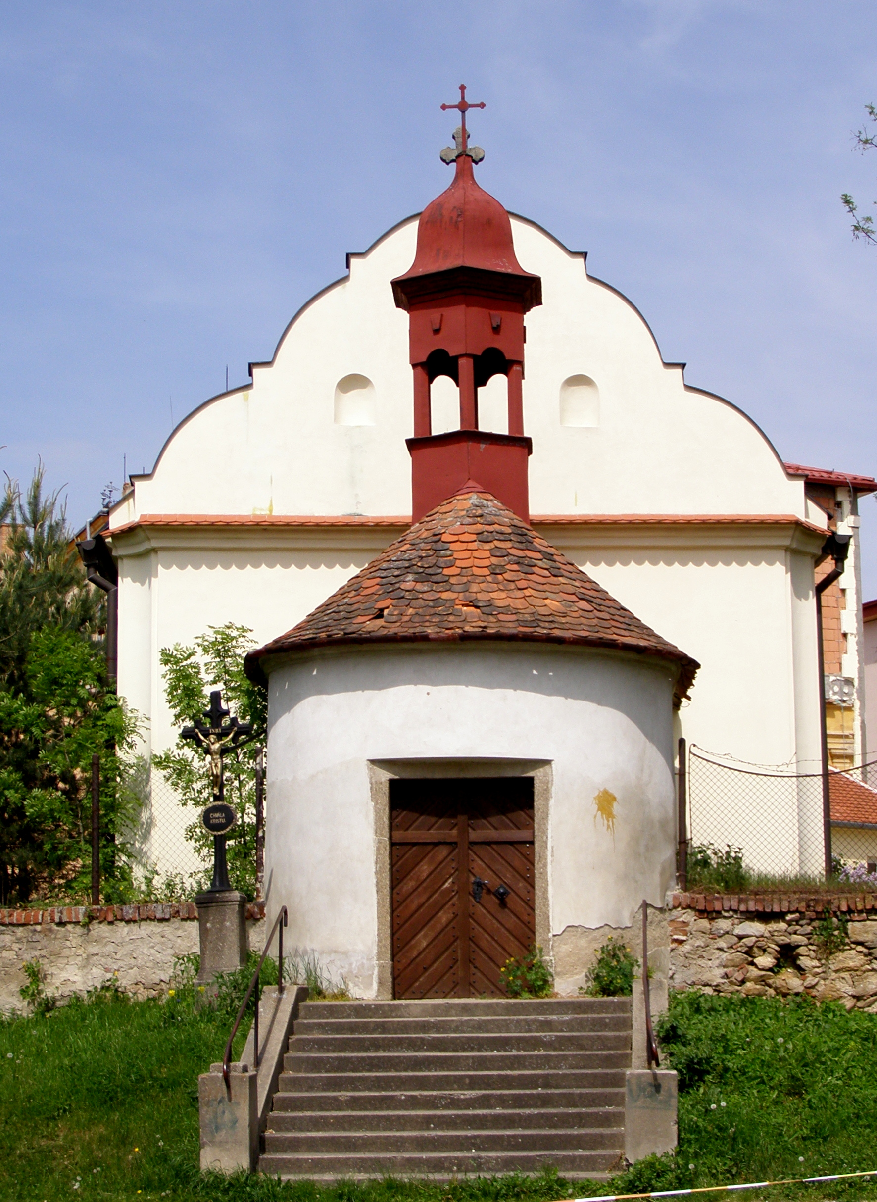 Jaroměřice nad Rokytnou. St. Joseph Chapel.